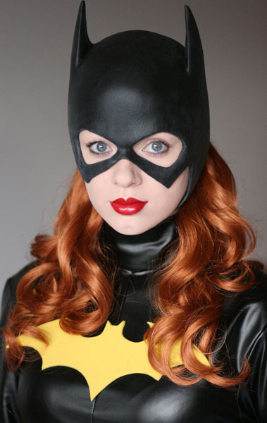 Cosplay of Batgirl by Barbara Gordon.